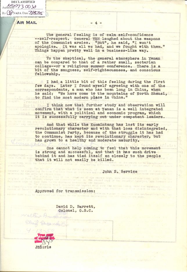 John Service, Report No. 1, 7/28/1944., to Commanding General Fwd. Ech., USAF – CBI, APO 879. “First Formal Impressions of Northern Shensi Communist Base.” State Department, NARA, RG 59.